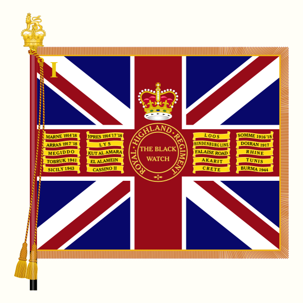 Queens Colour of the 1st Battalion Black Watch (Royal Highland Regiment)